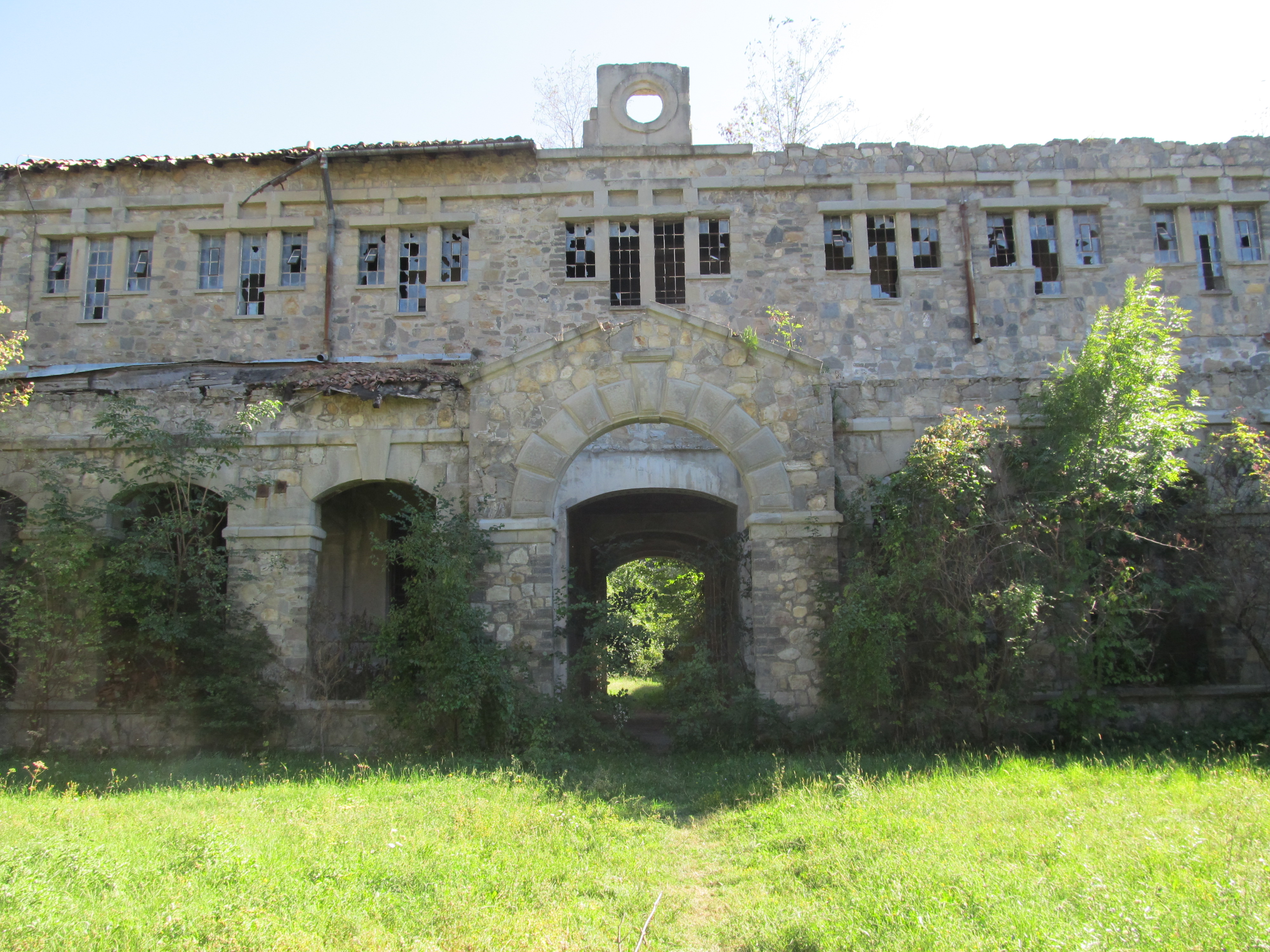 Penitenciarul Doftana 15